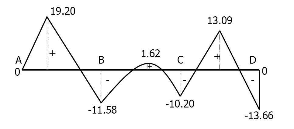 Bending momend diagram, to be used for an example of the 모멘트 분배법(moment distribution method).